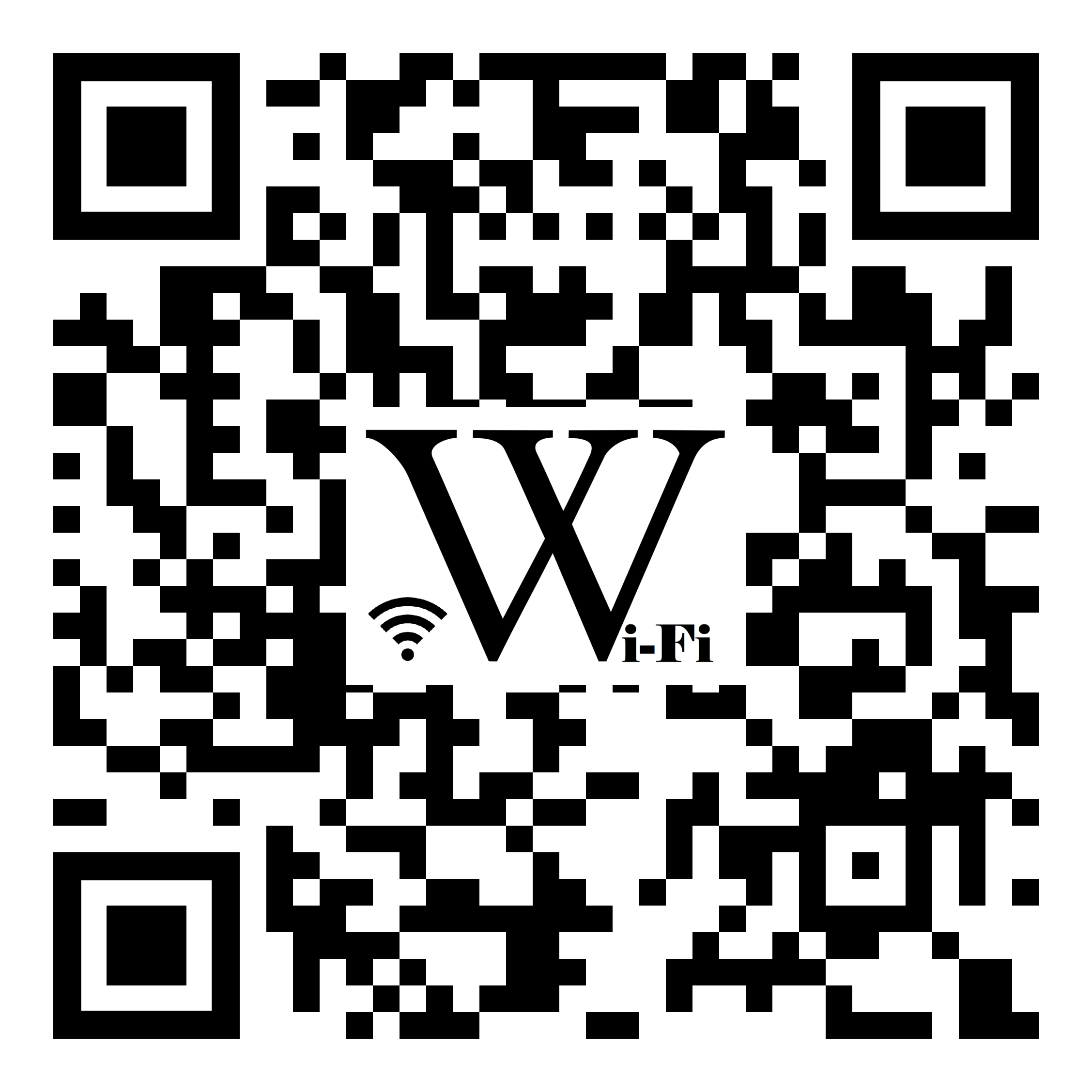 A QR code to automatically connect to the SSID Wikipedia with the password Password1! The data embedded in the QR code is WIFI:S:Wikipedia;T:WPA;P:Password1!;; In this image you can see an iPhone scanning this QR code.